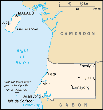 A map of Equatorial Guinea, showing major cities.